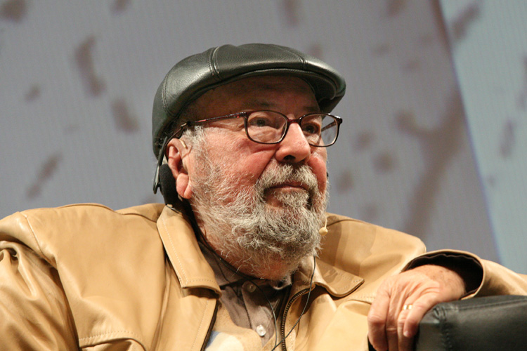 O sociólogo Francisco de Oliveira (Chico de Oliveira). Seminário Internacional CPFL Cultura e Boitempo Editorial - Crise do capital e perspectivas do socialismo. Palestra do programa Invenção do Contemporâneo realizada no dia 24 de agosto de 2009, no TUCA - Teatro da Universidade Católica de São Paulo, em São Paulo.